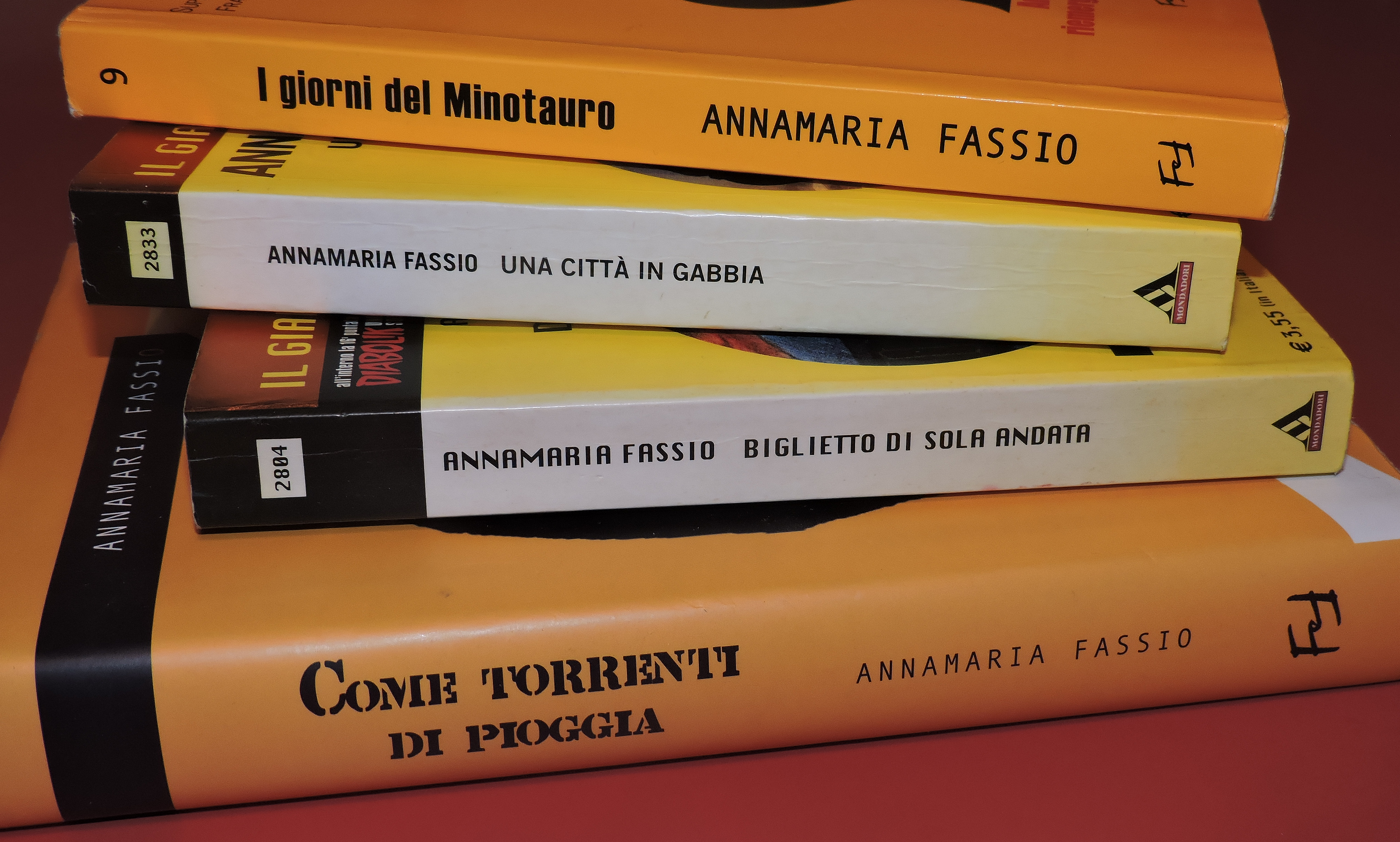 Some books by Annamaria Fassio